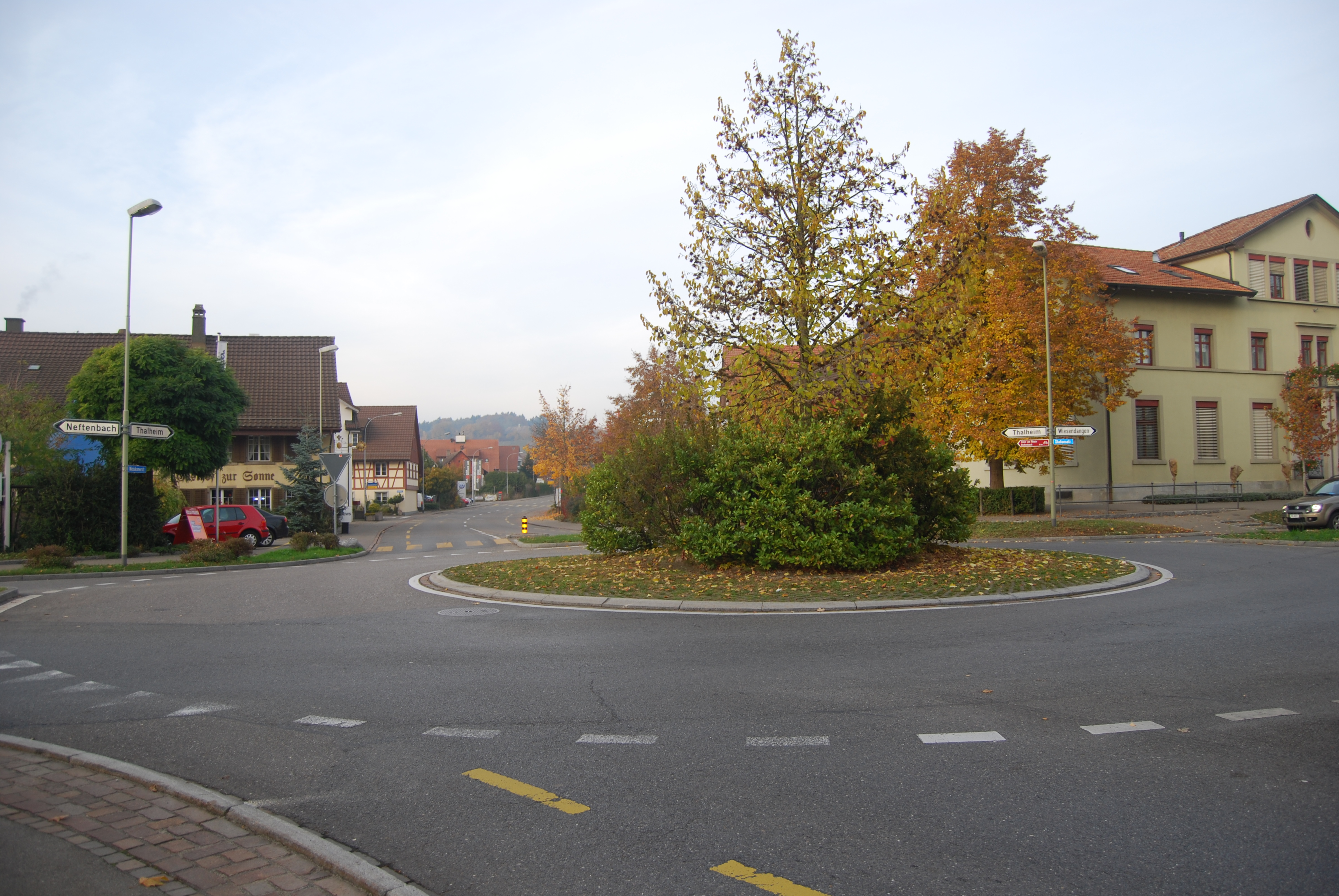 Street circle at Seuzach, canton of Zürich, SwitzerlandEsperanto: Trafikcirklo en Seuzach, Kantono Zuriko, Svislando